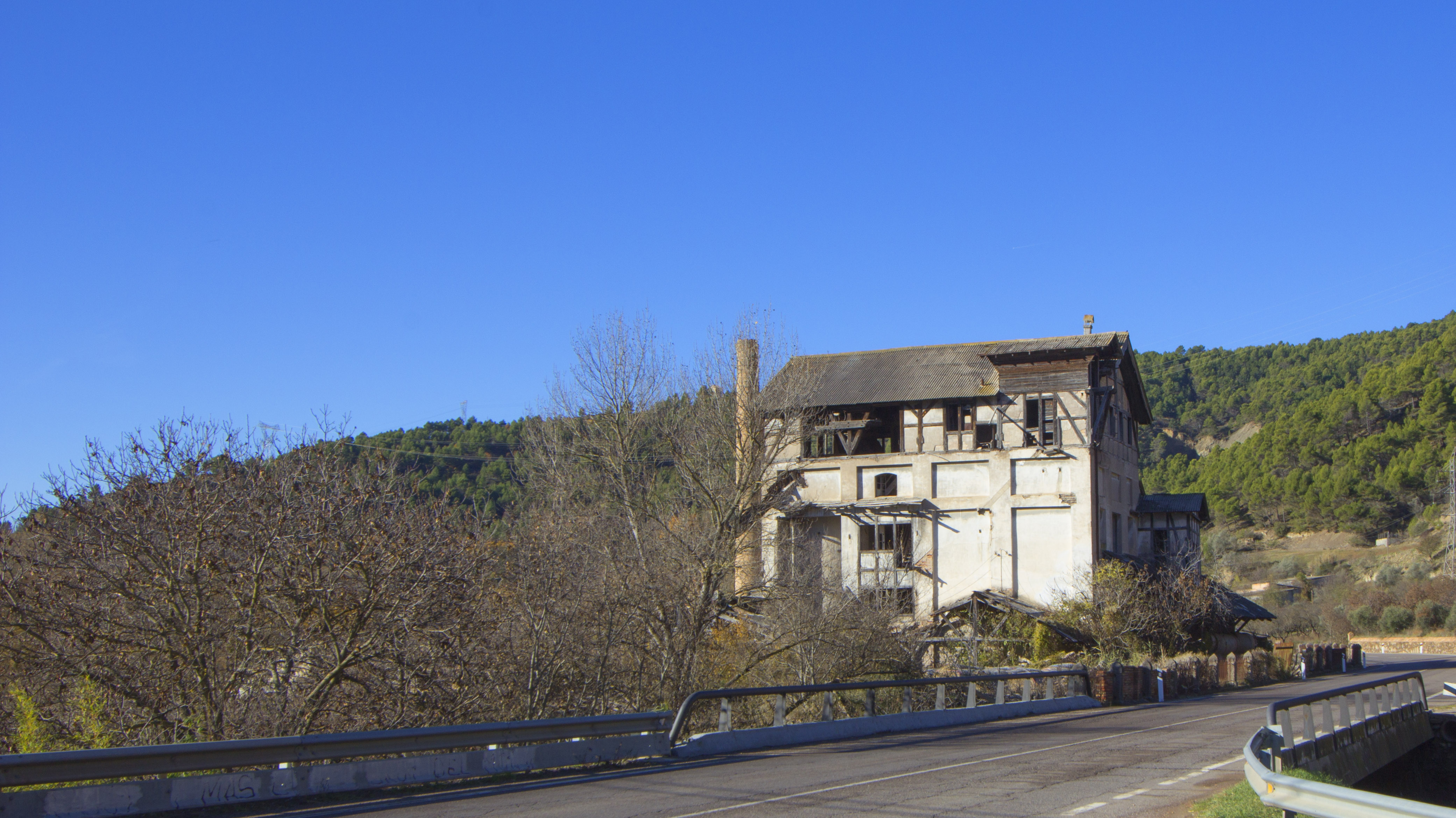 Energia Elèctrica de Catalunya's concrete factory at Pobla de Segur (Catalonia)